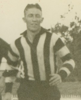 Photo of Norm Macleod from 1927-1932